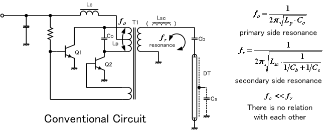 Inverter circuit (Royer's Circuit or Royer Converter)